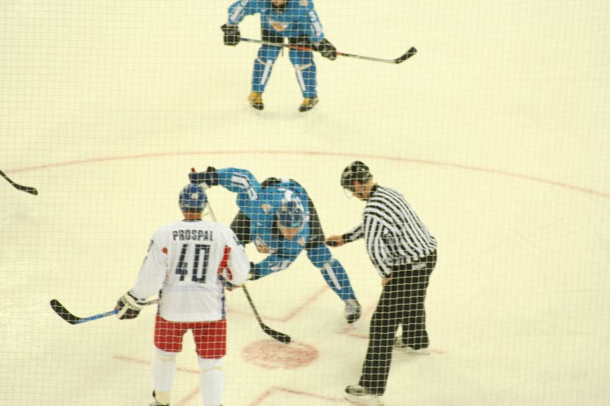 Václav Prospal from the Czech National ice hockey teams in Turin